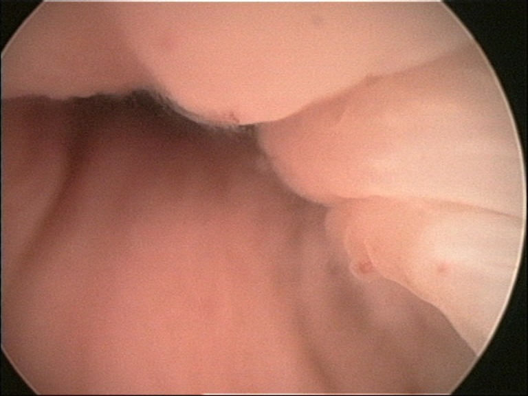 hysteroscopic view of an uterine cervix